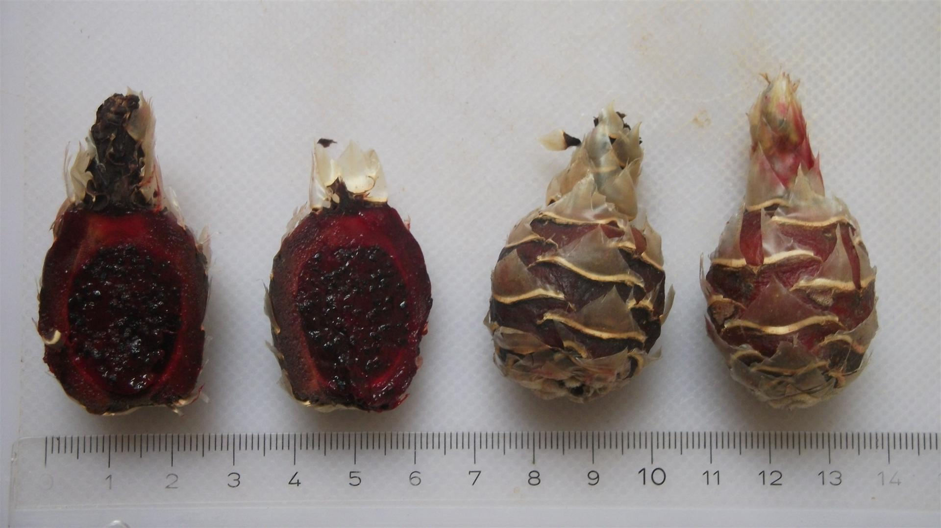 ripe jiotilla/chiotilla fruit, whole and halves.